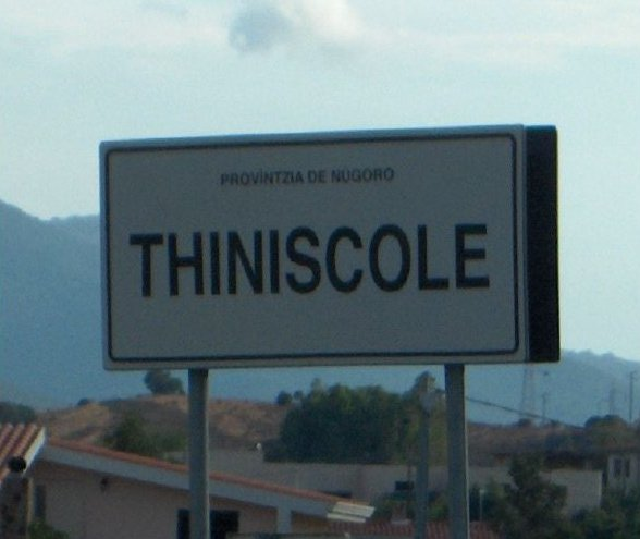 Town road sign in sardinian language in Sardinia (Siniscola/Thiniscole), Italy. Italian official name is Siniscola (Province of Nuoro). Photo taken by User:Dch in year 2006.